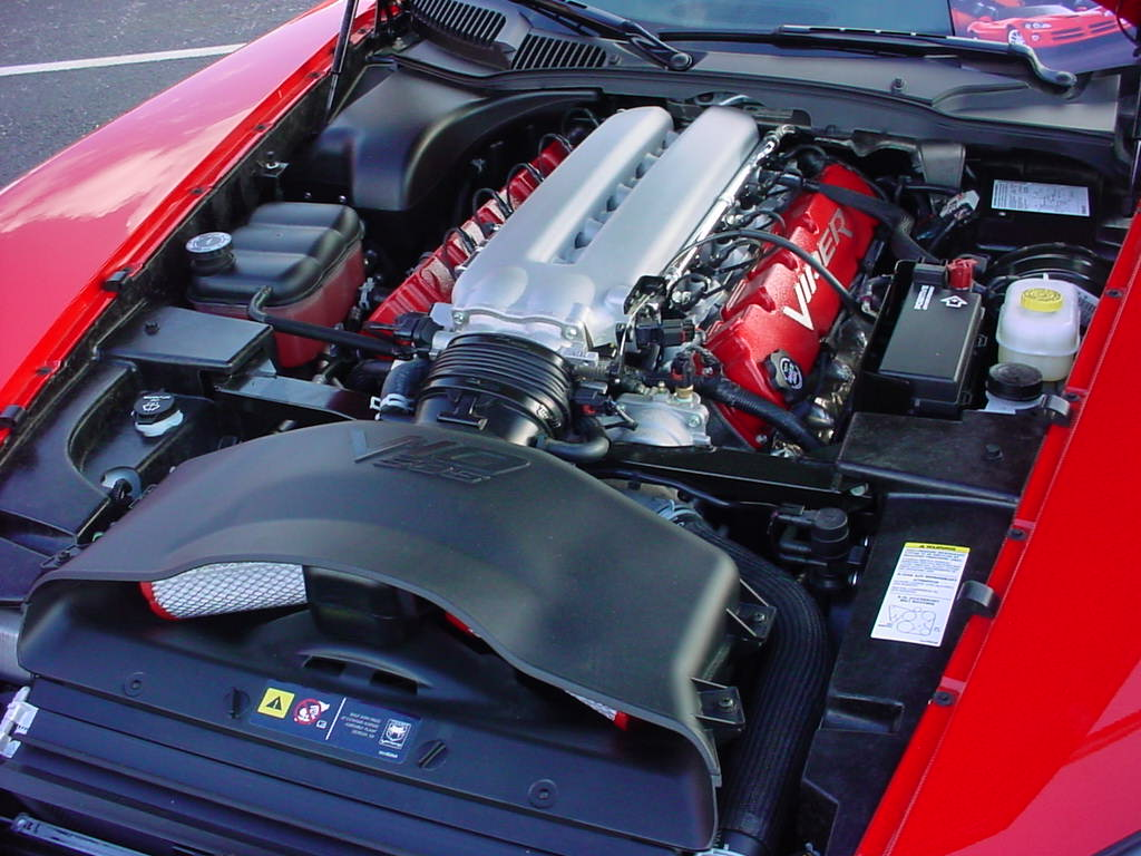 8.3 Liter V10 engine, from a 2004 Dodge Viper SRT-10 Image taken by John Blossom at a Dodge media event in Daytona Beach, Florida